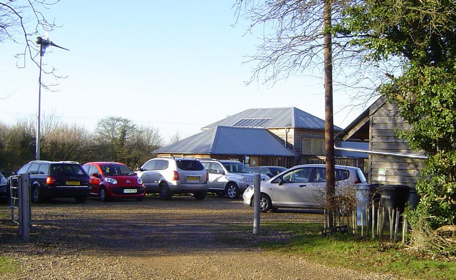 The Foundry, headquarters of the Green Light Trust - a popular venue for meetings.